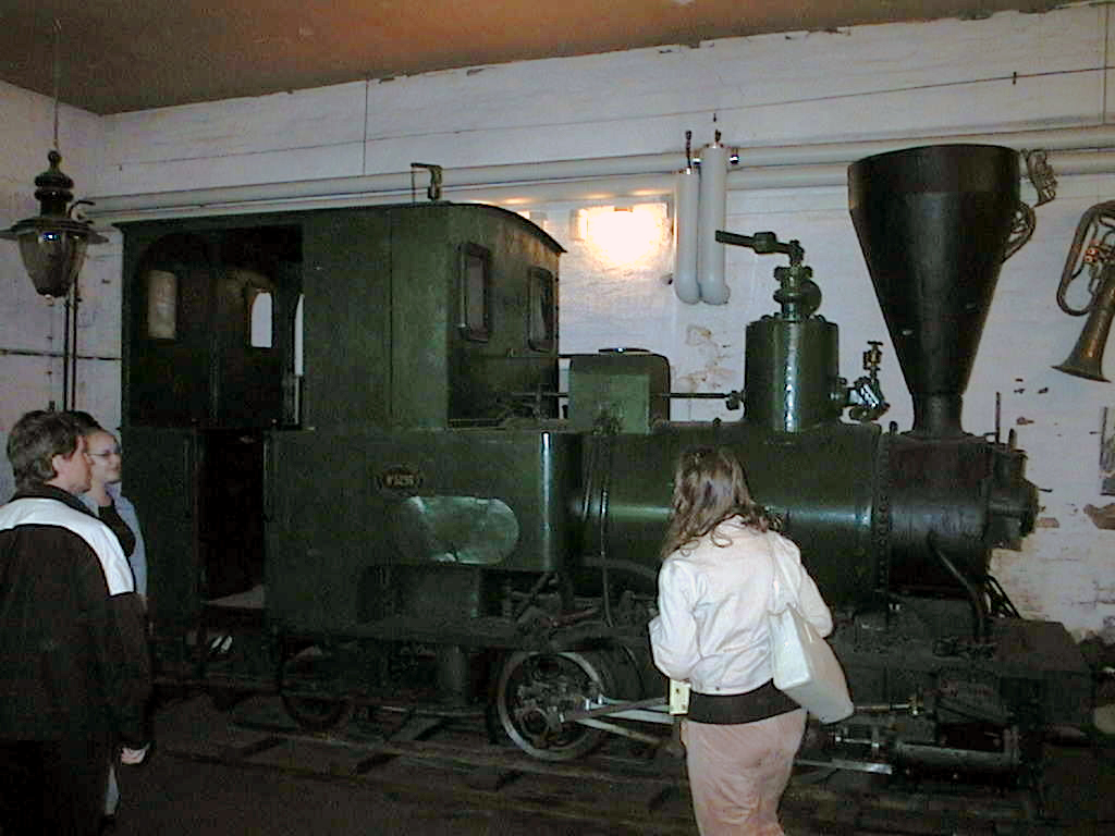 A narrow gauge steam locomotive manufactured by Krauss, originally from Ruotsinpyhtää, Finland, industrial railway.